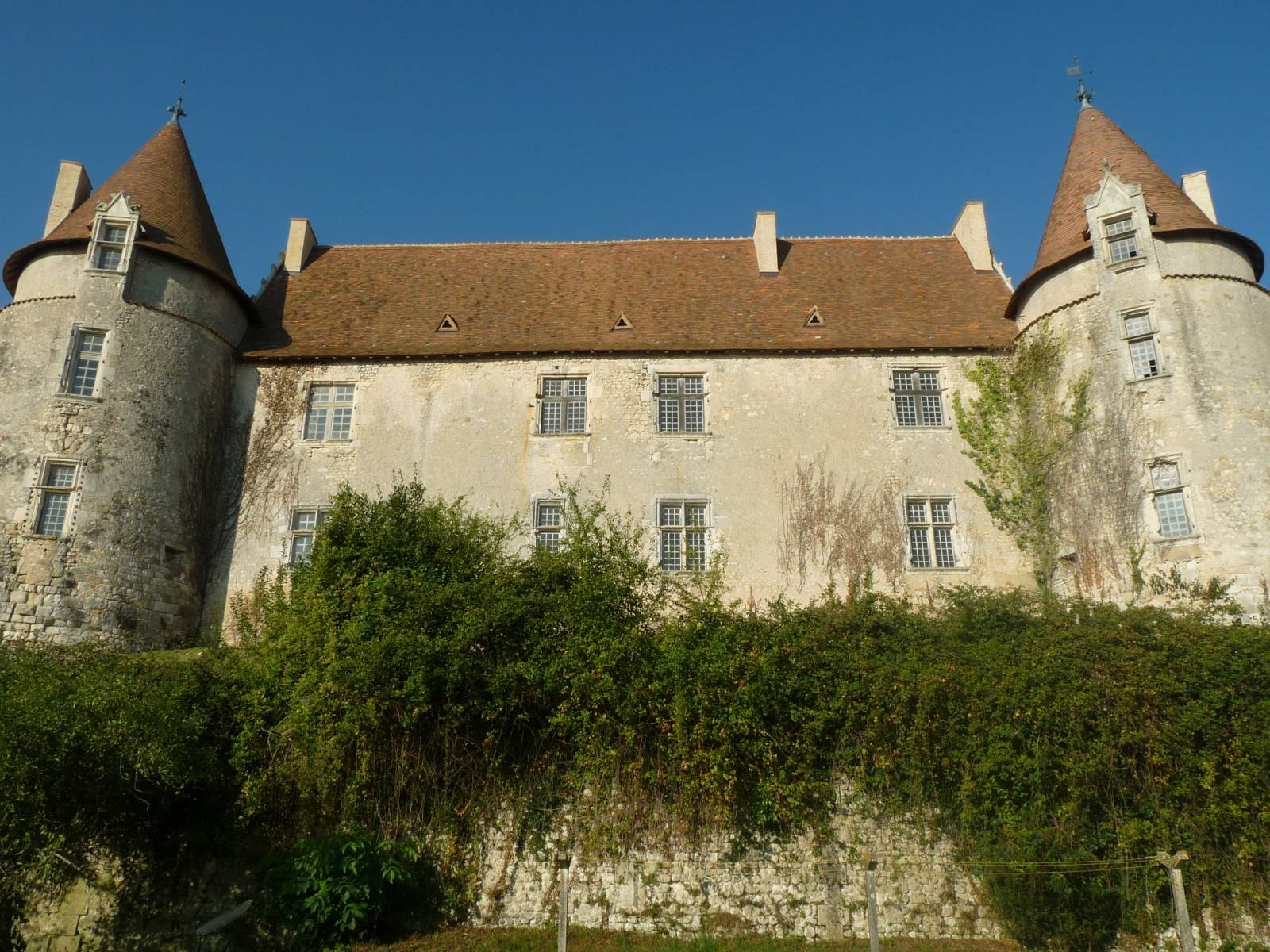 castle of Montmoreau, Charente, SW France